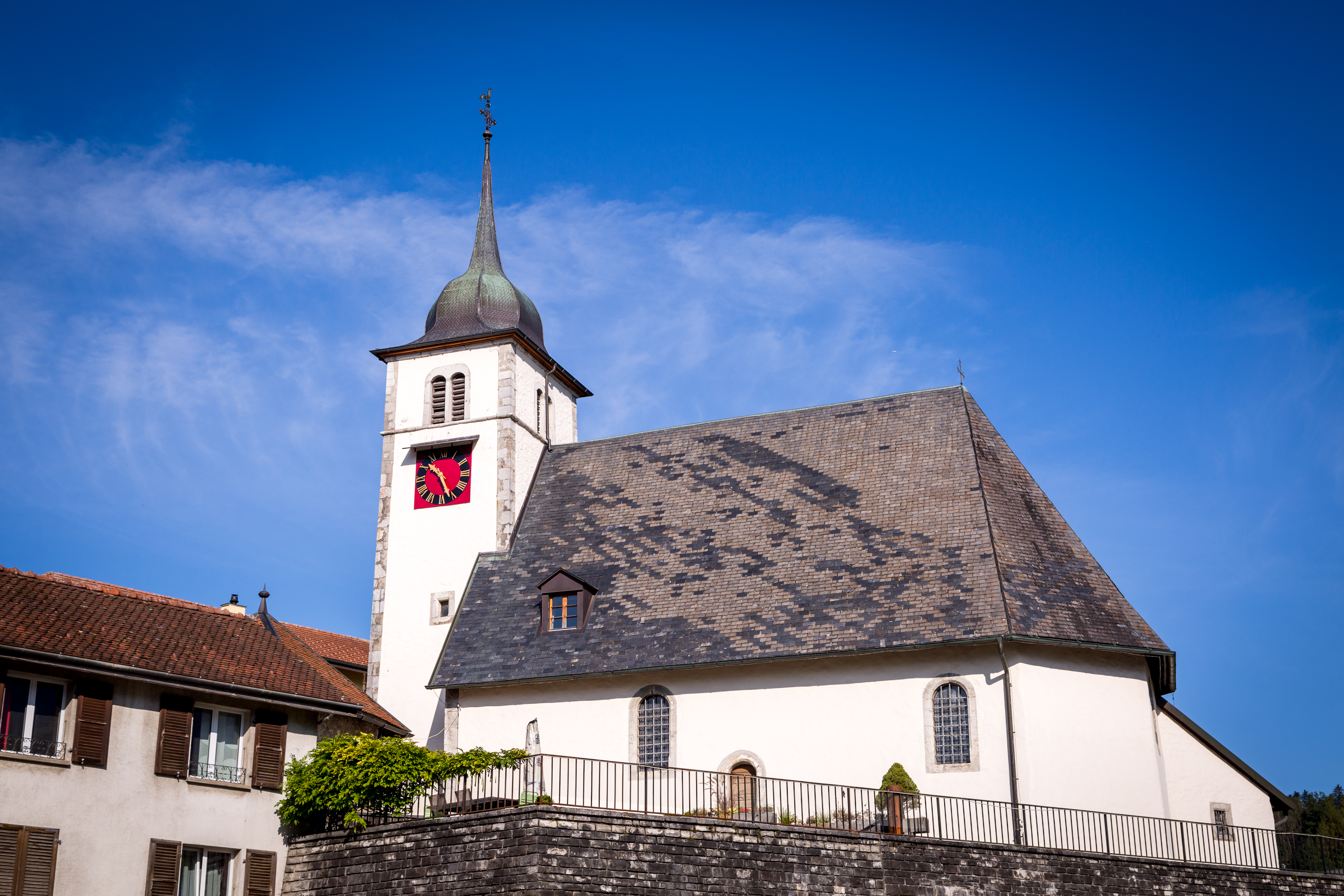 Église Saint-Nicolas-de-Flue